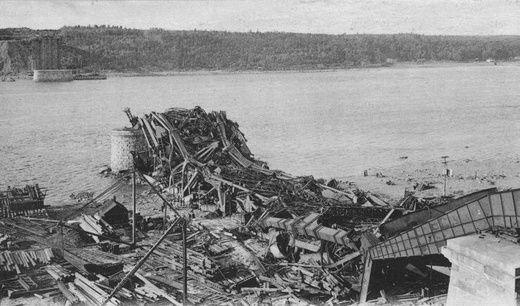 Quebec Bridge after the collapse; 29 august 1907, Quebec City; ink on paper mounted on card - collotype; 8.9 x 13.9 cm